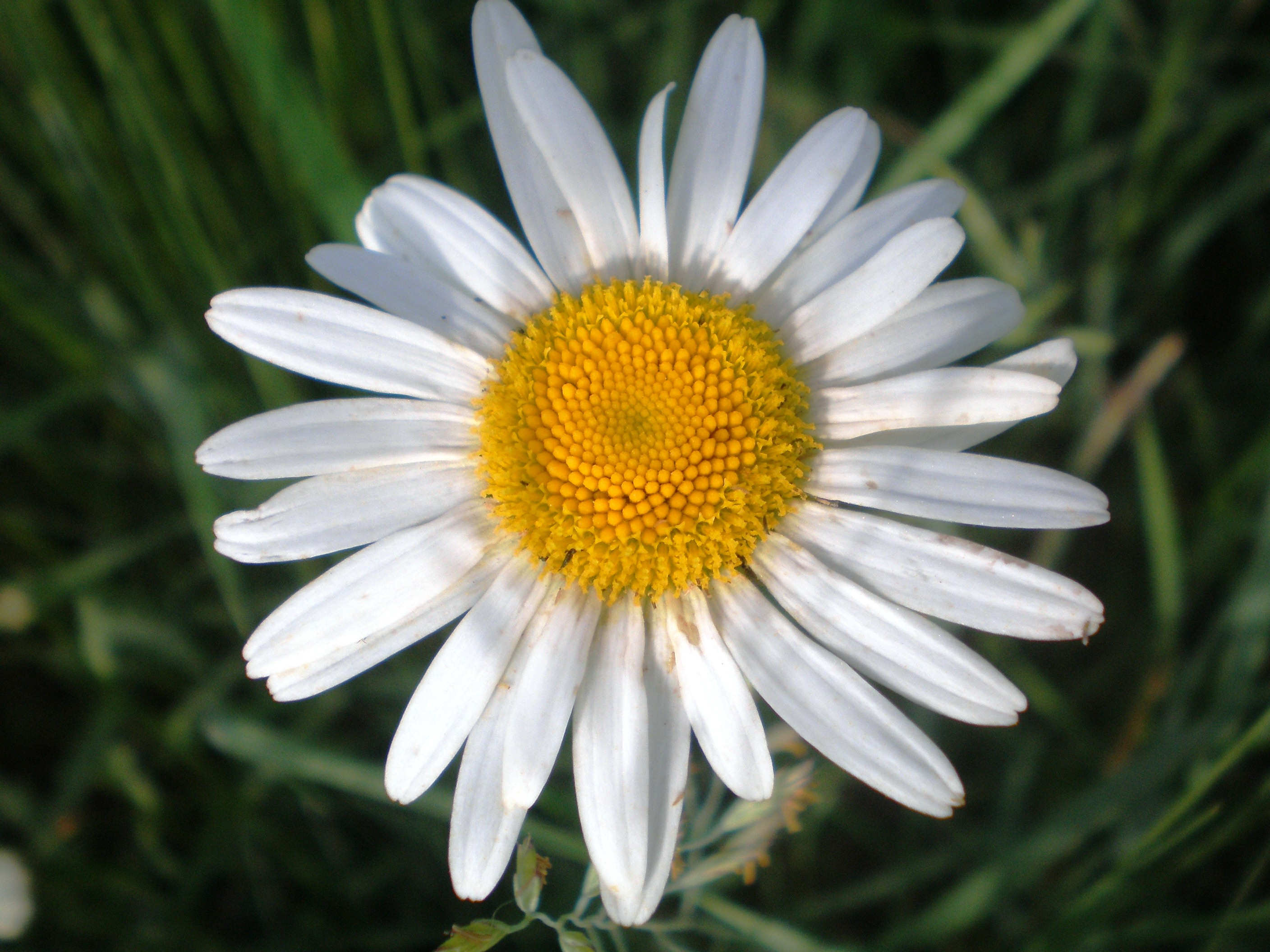 Leucanthemum vulgare